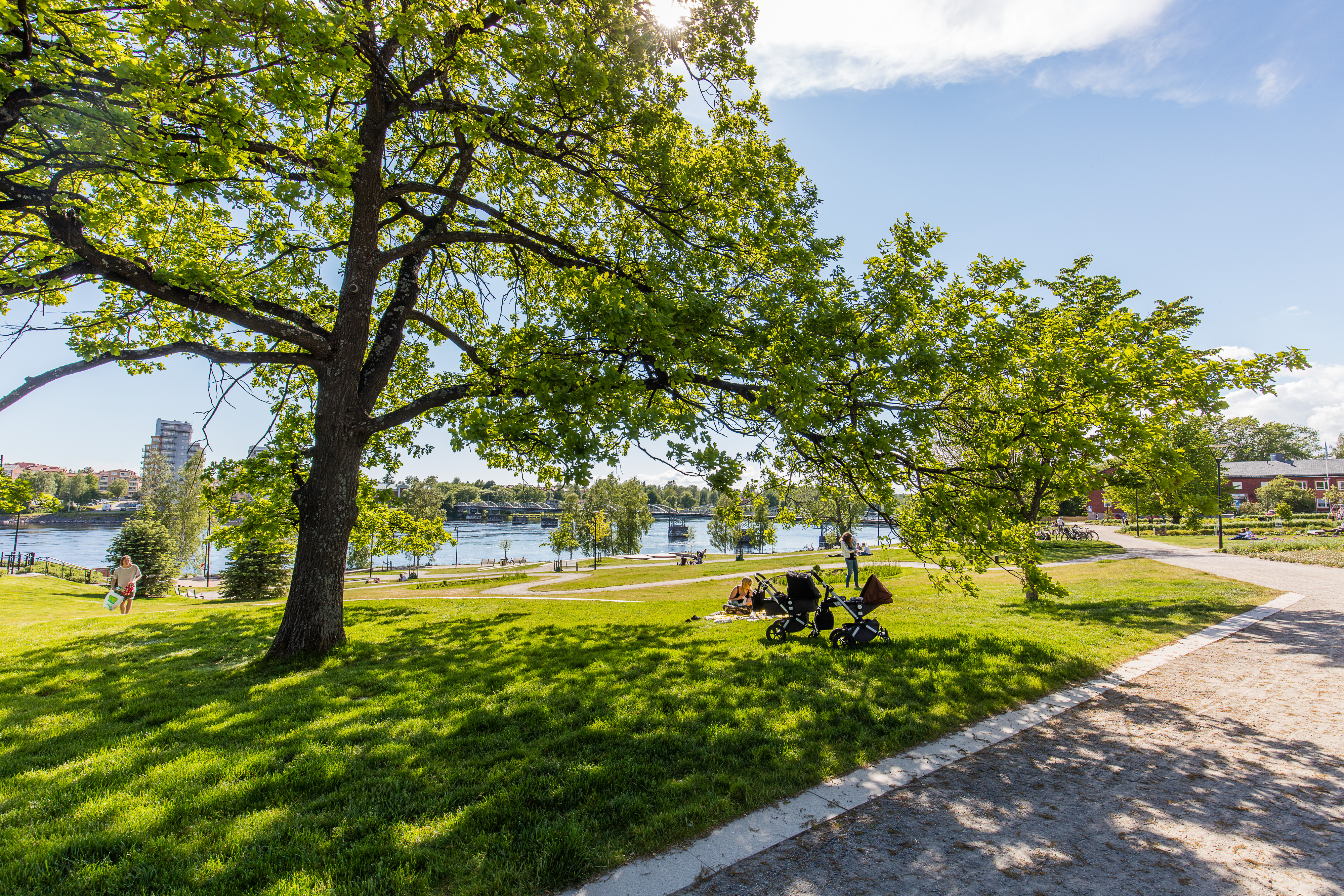 Broparken, a park in central Umeå, was rebuilt in 2013.